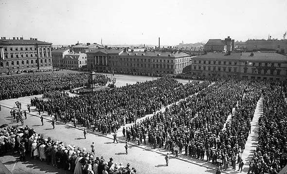 The "peasant march", a show of force by the right wing group Lapuan Liike on 7th July 1930 in Helsinki